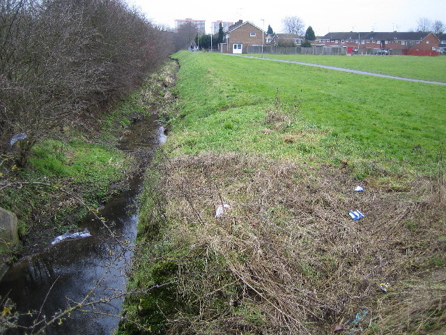 Luton: Houghton Brook, Leagrave. Viewed looking east and downstream from near the M1 Motorway. The massive blocks of flats in 101715 are visible on the horizon.